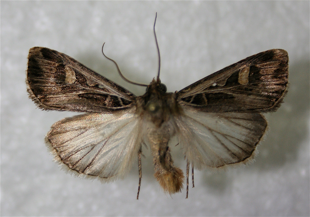 Dingy Cutworm (Feltia jaculifera) caught on the campus of Northern Michigan University.